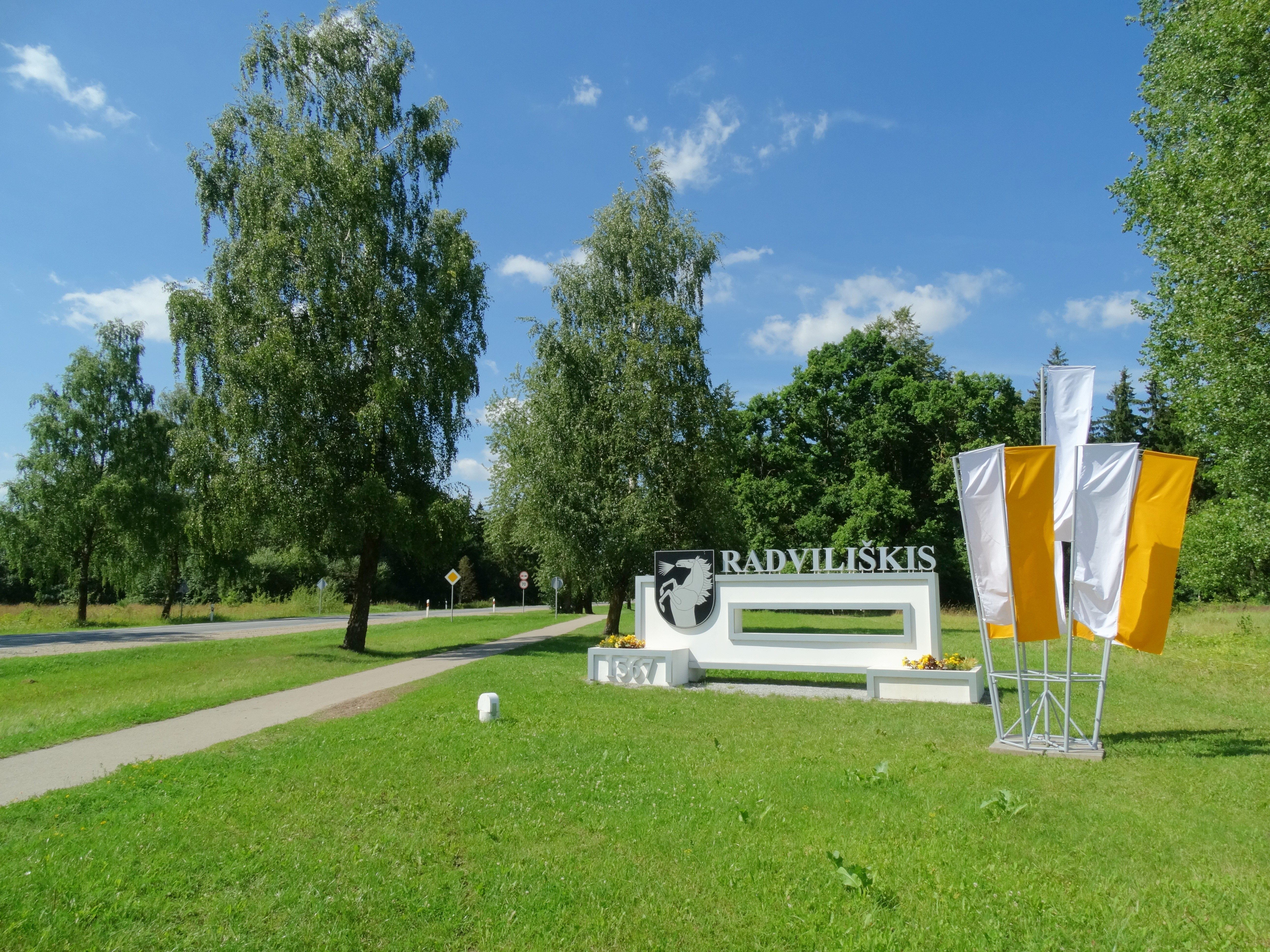 Radviliškis, Lithuania